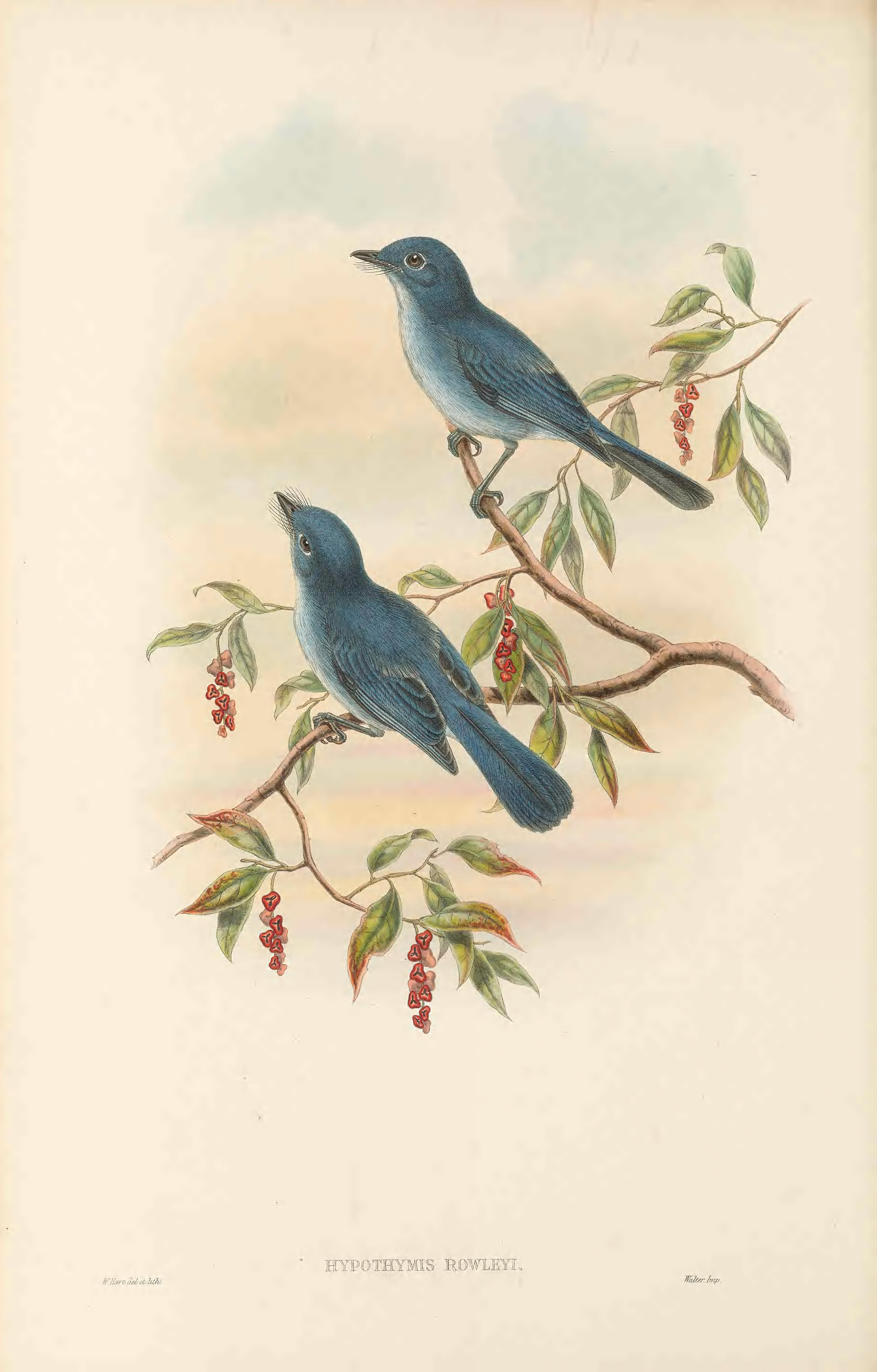 Rowley's blue-flycatcher (Hypothymis rowleyi) = Cerulean paradise-flycatcher (Eutrichomyias rowleyi)